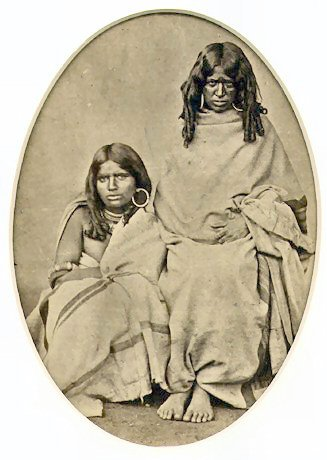 Kota women wearing their traditional dress and ornaments.